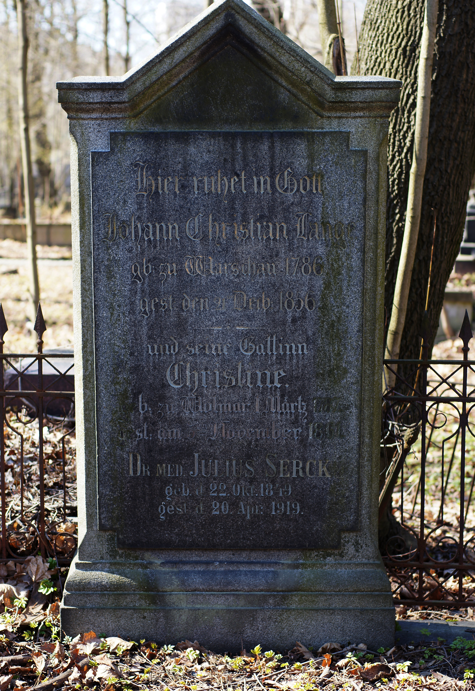 Serck Julius Christian MD